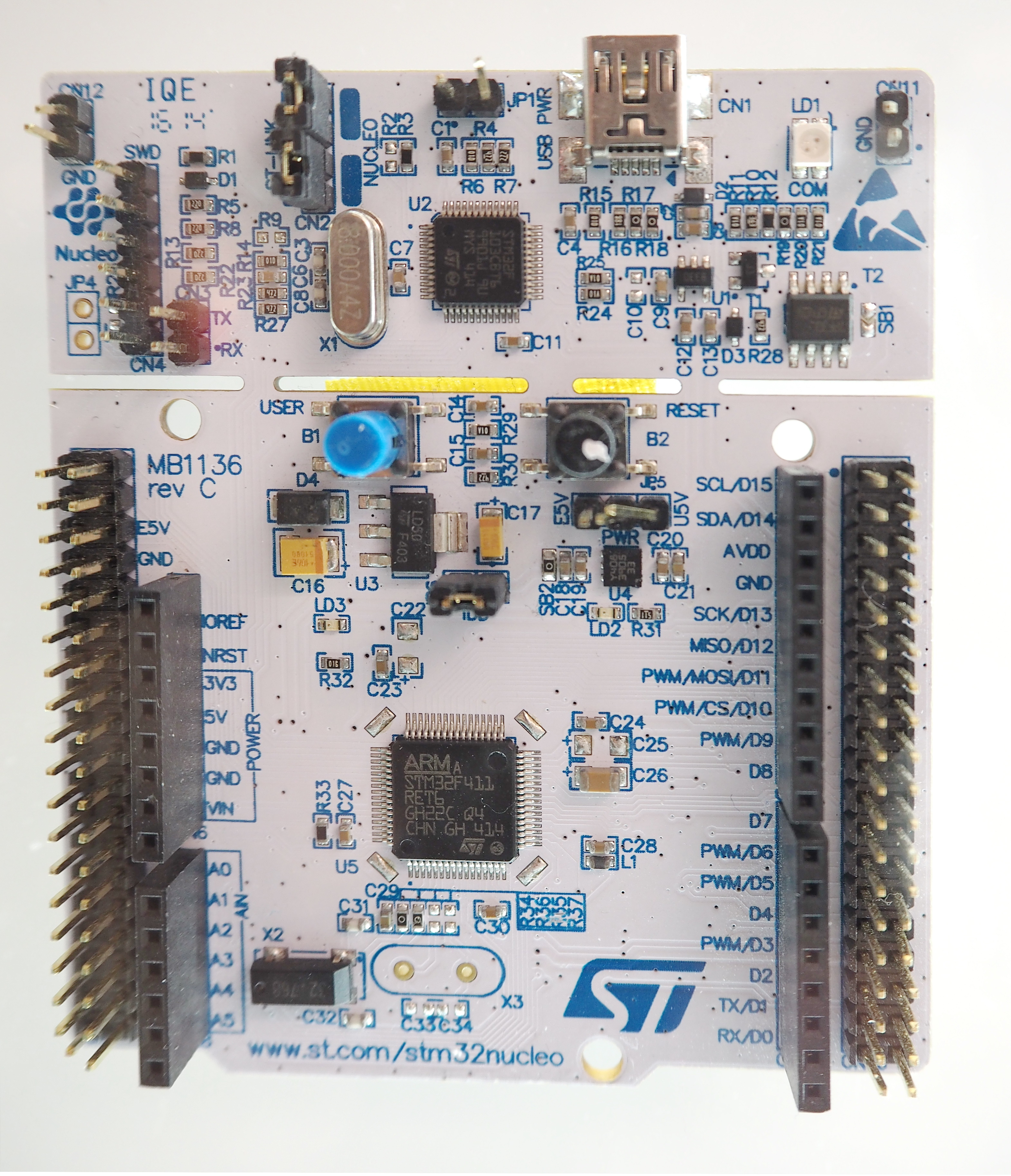 Embedded World fair 2016 in Nuremberg - ST STM32 Nucleo F411RE T6 with ARM Cortex M4